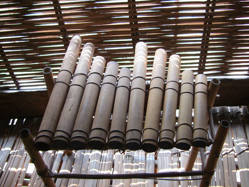 Klong put, a musical instrument of Bahnar people.